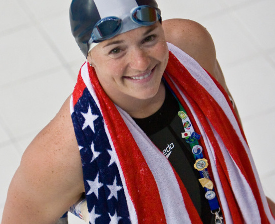 In 2004, Army 1st Lt. (Ret.) Melissa Stockwell was leading a convoy on a mission in Iraq when an improvised explosive device (IED) destroyed her Humvee. As a result of the blast, Stockwell lost her left leg. She was the first female service member to lose a limb in the Iraq War. After a year recovering and undergoing rehabilitation at Walter Reed Army Medical Center Stockwell was medically retired in 2005. Her military decorations include the Purple Heart and Bronze Star. Since then, Stockwell has completed multiple triathlons and has become a competitive swimmer. She competed in three events in the 2008 Paralympics and is the 2010 Paratriathlon world champion. In addition to her work as a paratriathlete, Stockwell works with the Wounded Warrior Project and is a certified prosthetist, fitting other amputees with artificial limbs. U.S. Veterans Affairs photo